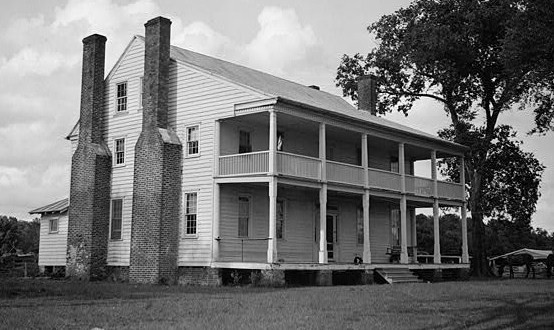 Sandy Point Plantation, Sound Shore Road, Edenton vicinity (Chowan County, North Carolina) - cropped